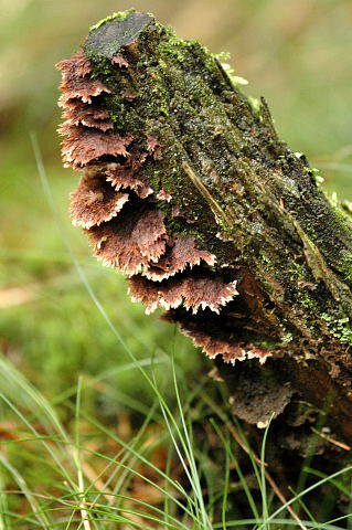 Thelephora terrestris from Commanster, Belgium. The determination of the species shown in this picture has been verified.